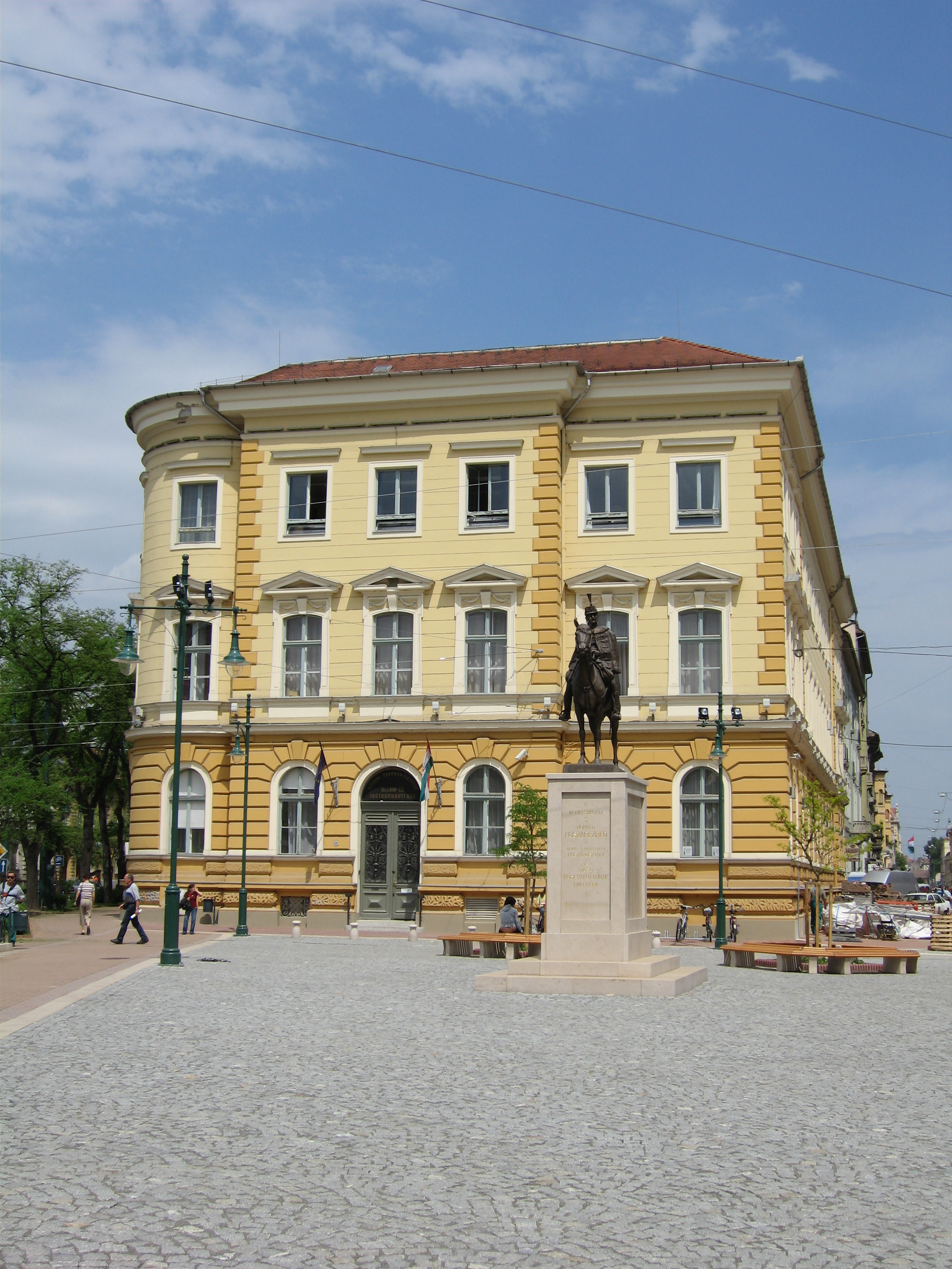 Szeged University of Szeged Faculty of Law